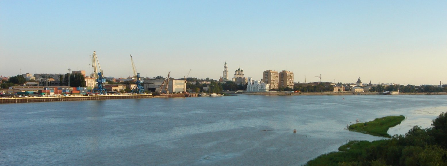 Astrakhan view from a New Bridge across Volga